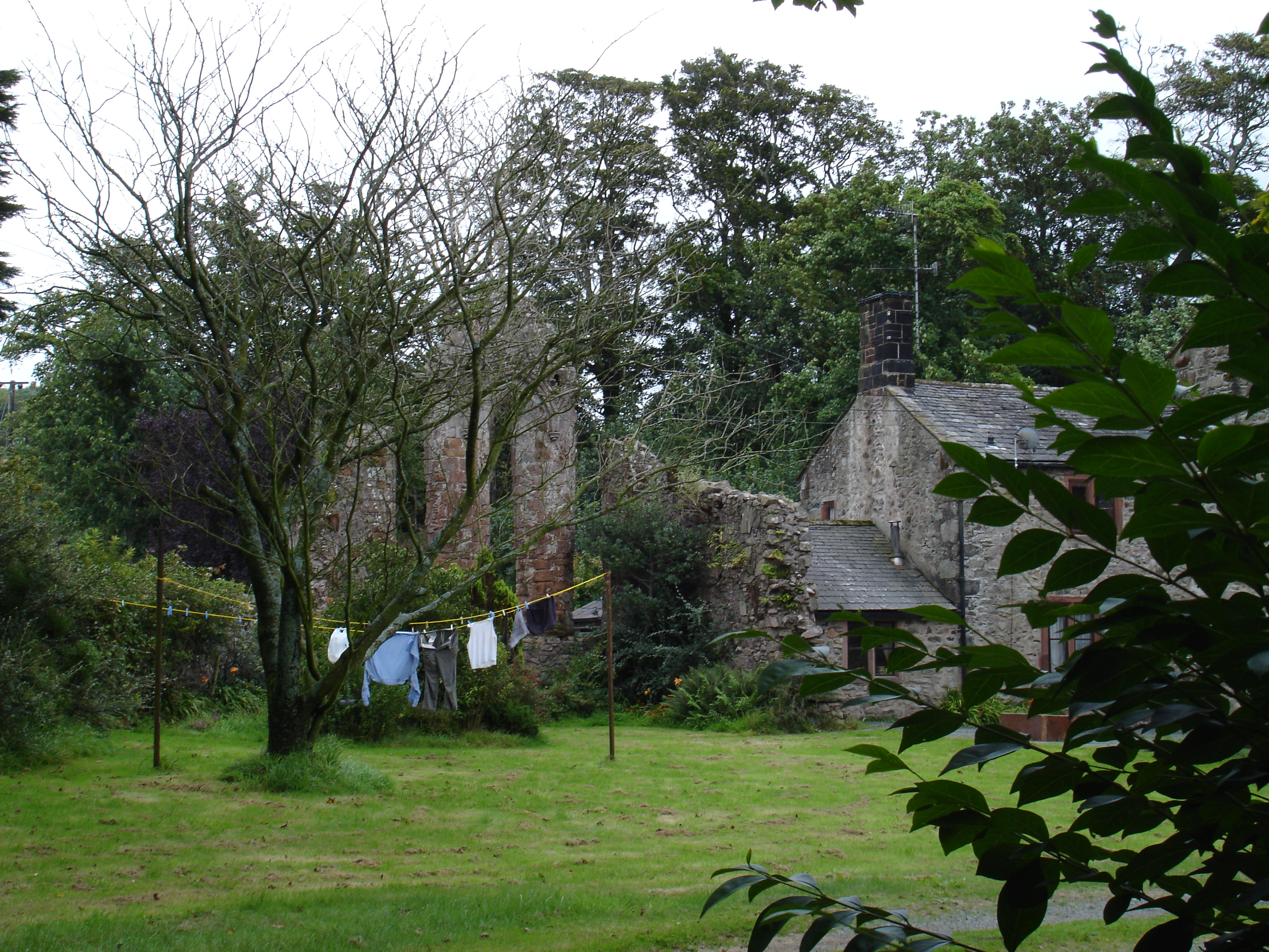 Photograph of the remains of Seaton Priory, nr Bootle, Cumbria, England